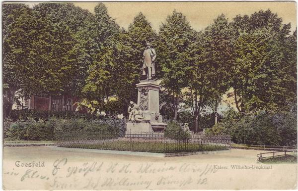 War memorial 1870/71 with sculpture of Wilhelm I. in Coesfeld (by Wilhelm Haverkamp)